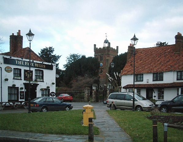 Harmondsworth. Green & church